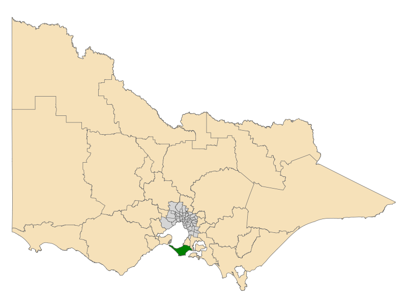 Location of the Electoral District of Nepean (dark green) in the state of Victoria, Australia. These boundaries were used for the Victorian state election on 29 November 2014.